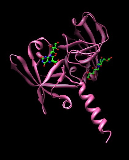 One monomer (with ligands) of riboflavin synthase. PDB: 1kzl, organism: S. Pombe